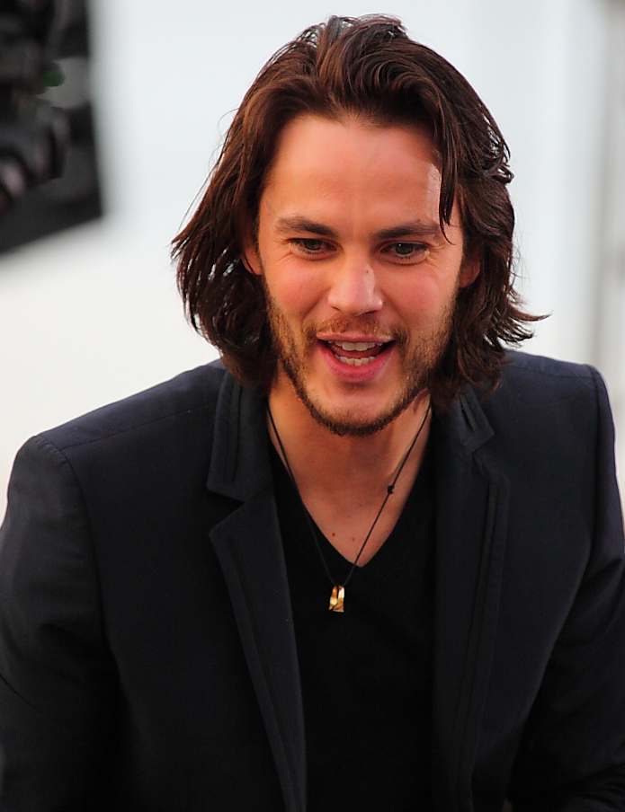 Taylor Kitsch at the X-Men Origins: Wolverine premiere in Tempe, Arizona.